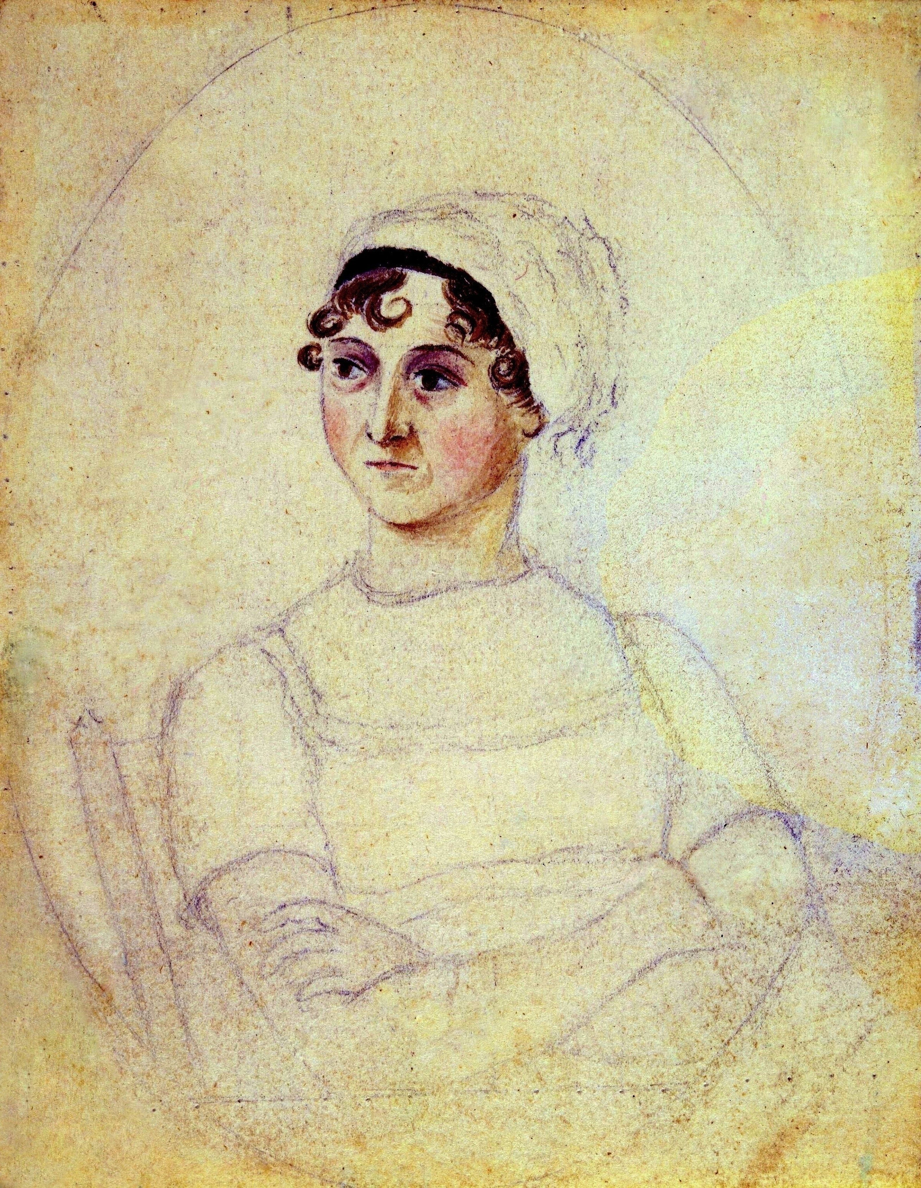 Portrait of Jane Austen in watercolor and pencil, restored and remastered by Amano1